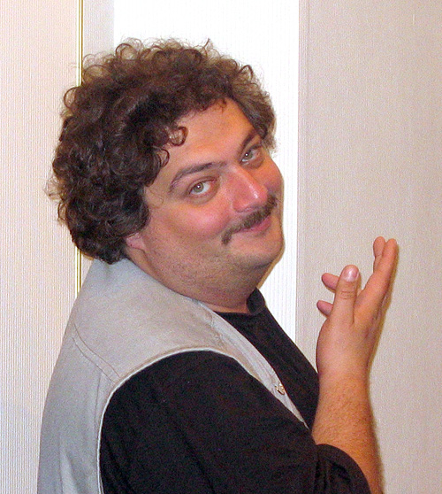 Dmitrii Bykov, Russian writer; biographer of Boris Pasternak